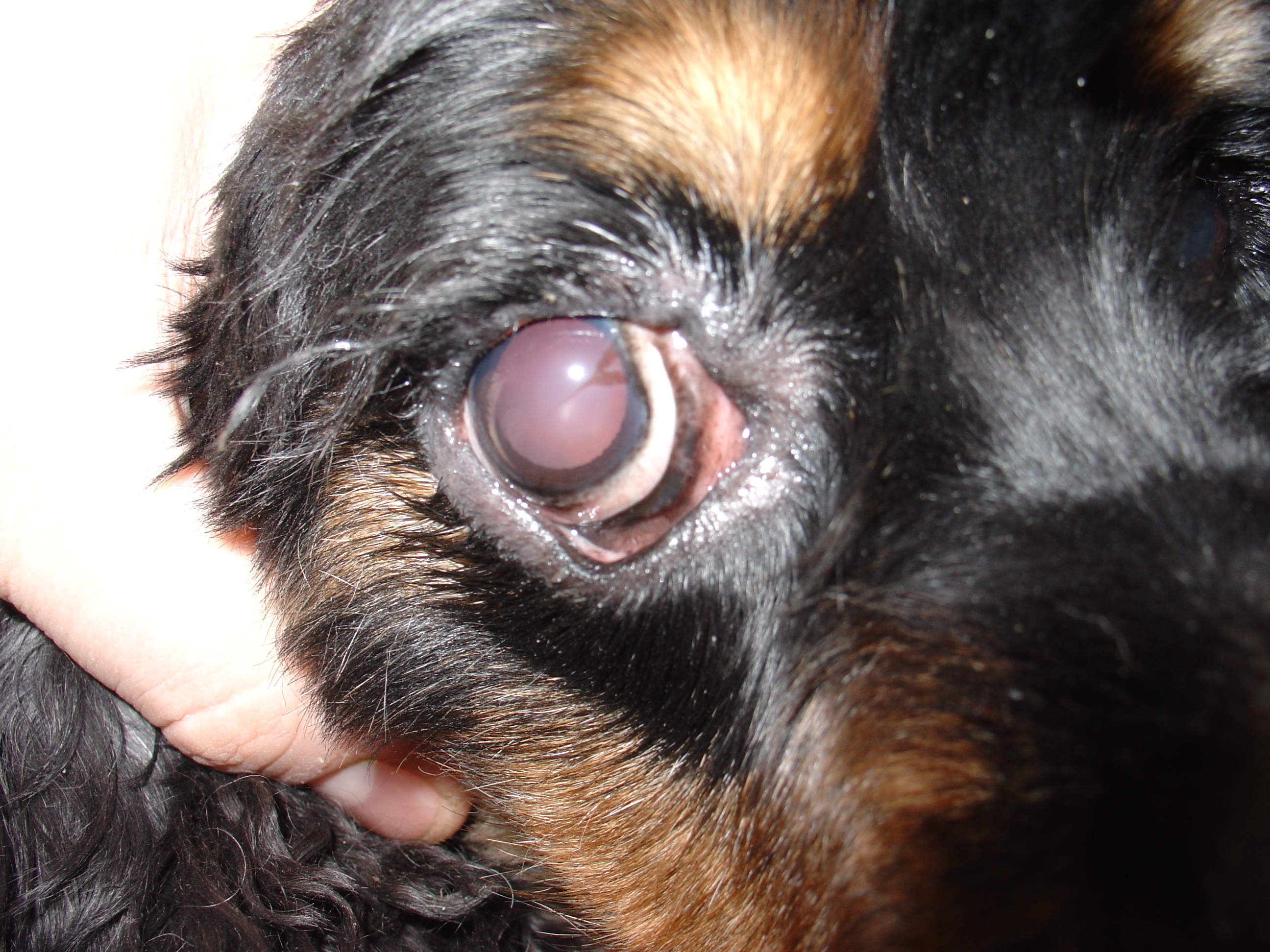 Lower lid ectropion in a four year old cocker spaniel. The shaded area on the medial cornea is pigment from corneal irritation.